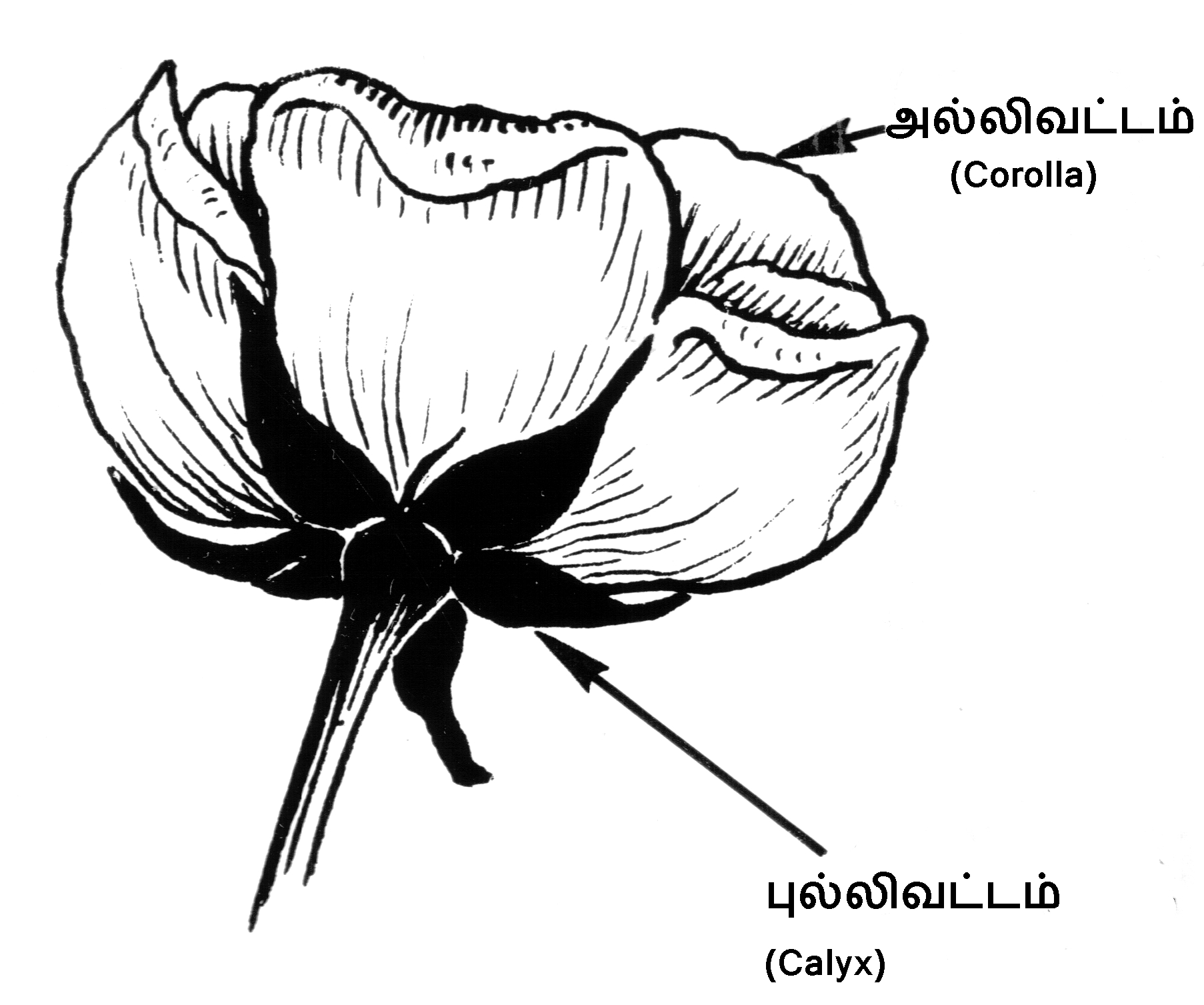 description of petals and sepals in tamil